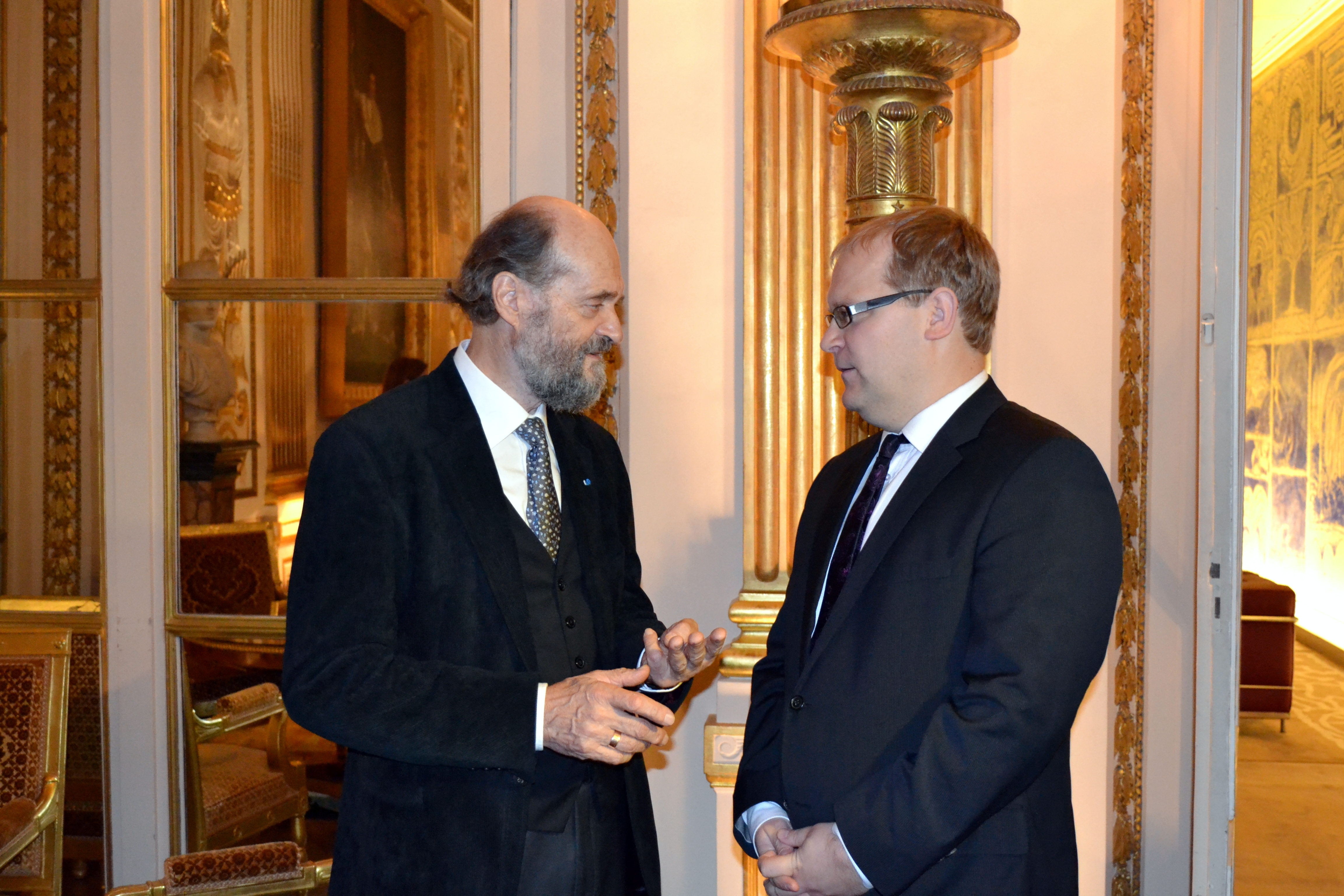 Urmas Paet (right) discuting with Arvo Pärt (left) before his decoration in France as Knight of the National Order of the Legion of Honour